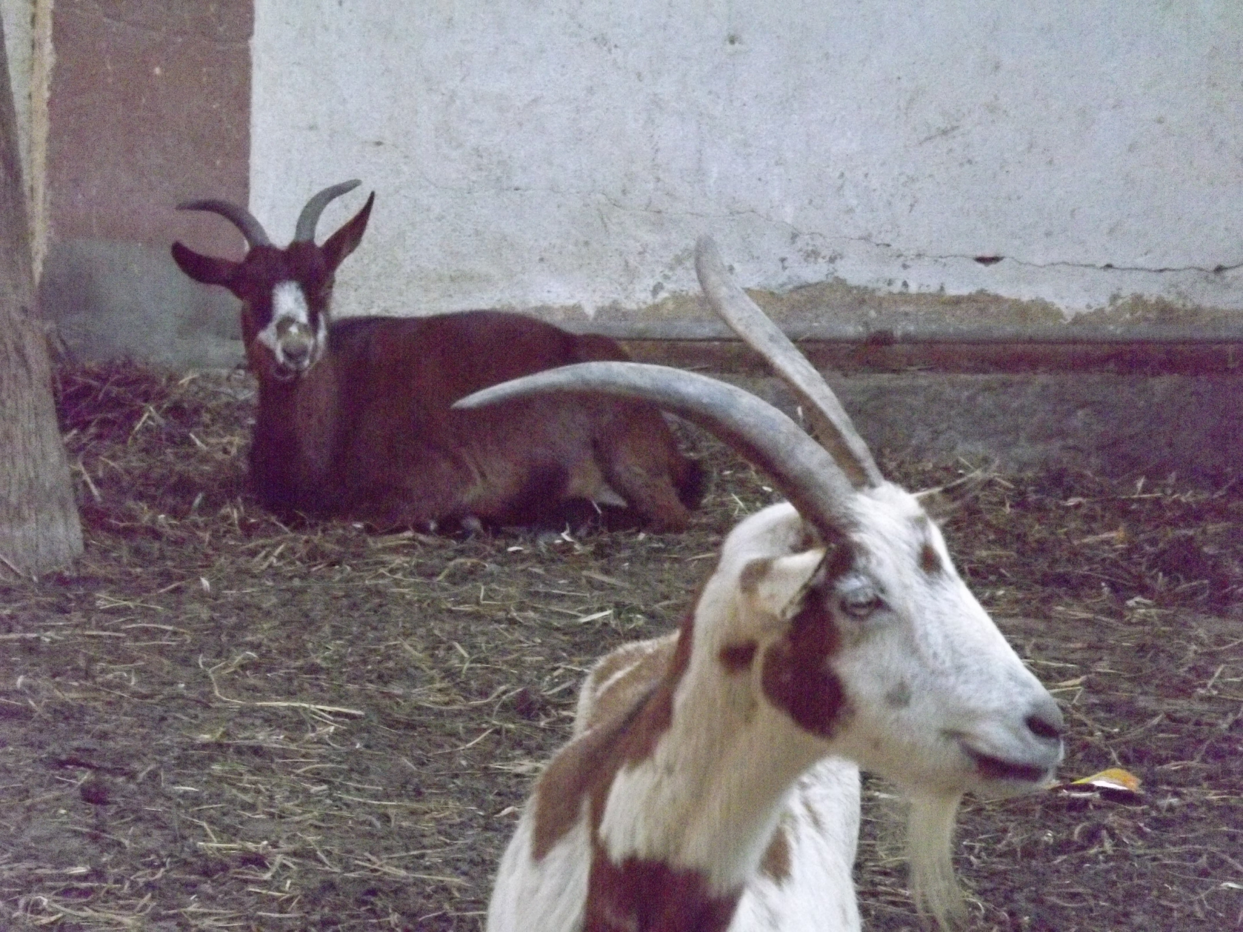 wild goat